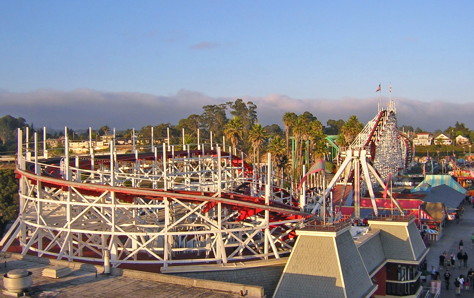 A scene from Santa Cruz Beach Boardwalk (SCBB), an amusement park located in Santa Cruz, California on the Pacific Ocean. SCBB is California’s oldest amusement park and a State Historic Landmark. It is the home to two National Historic Landmarks: the 1911 Looff Carousel and the 1924 Giant Dipper roller coaster. This image is of the Giant Dipper trackage.